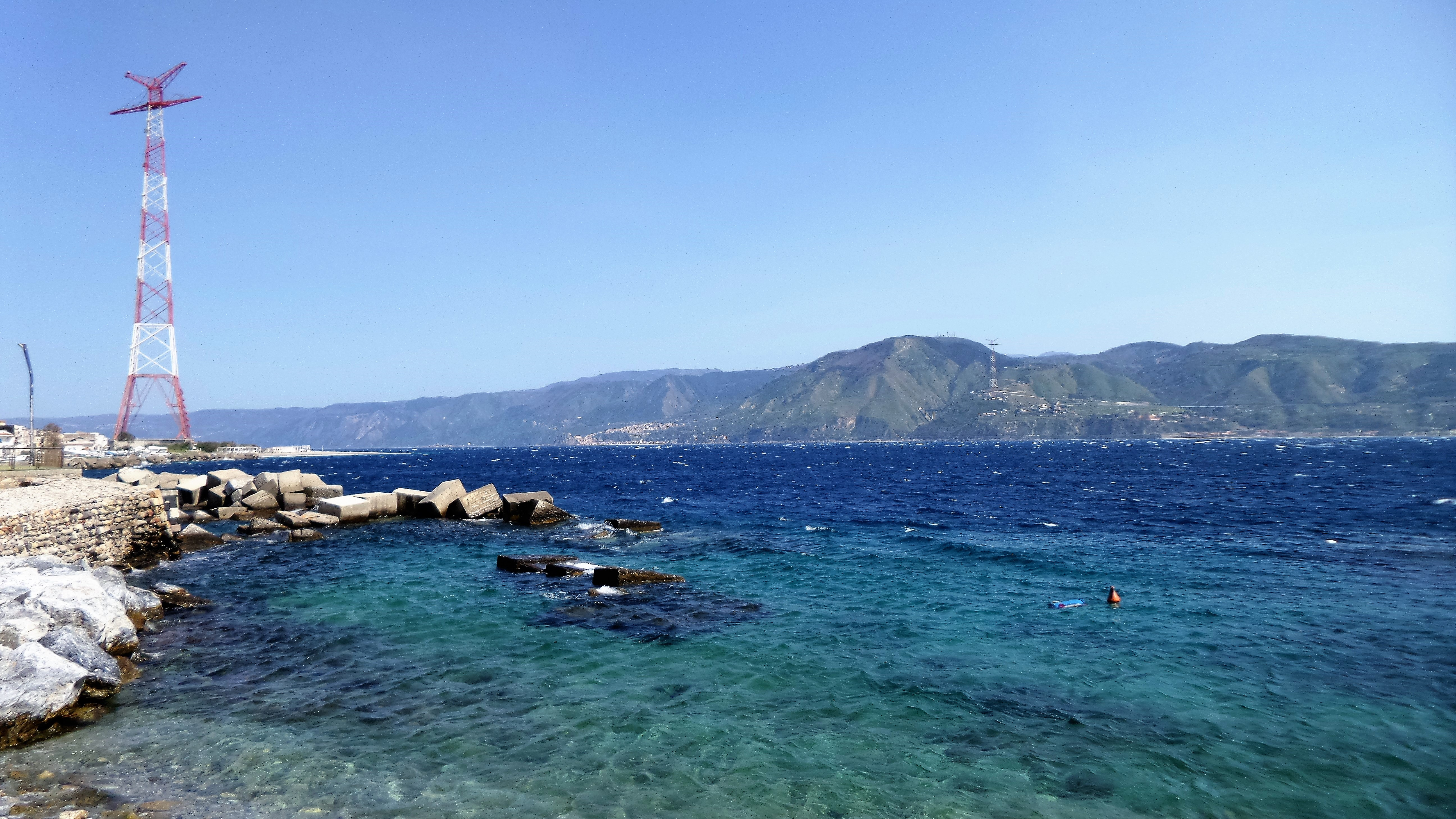 Cape Peloro Messina